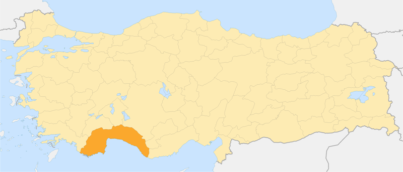 Shows the location of the province Antalya in Turkey